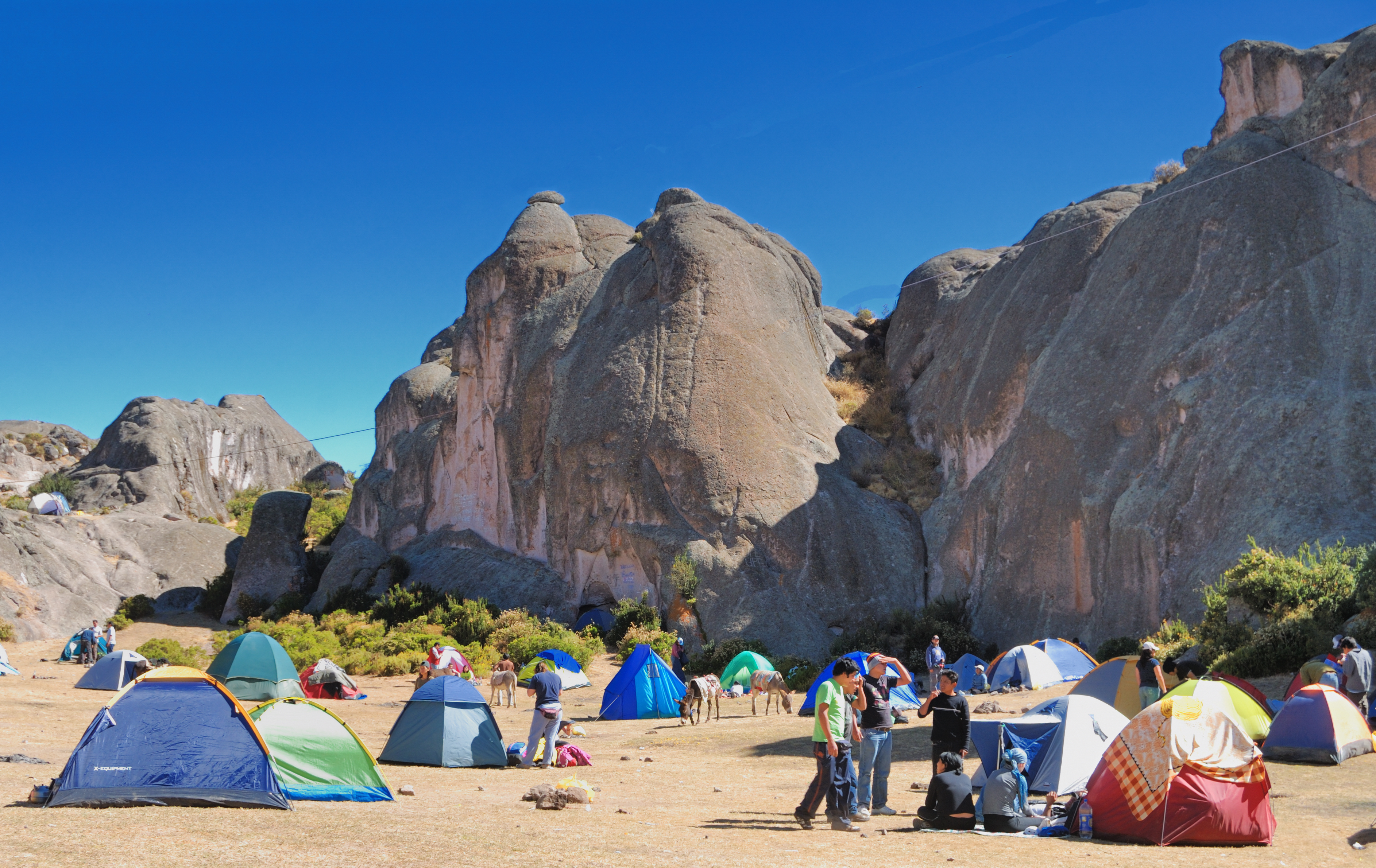 Marcahuasi